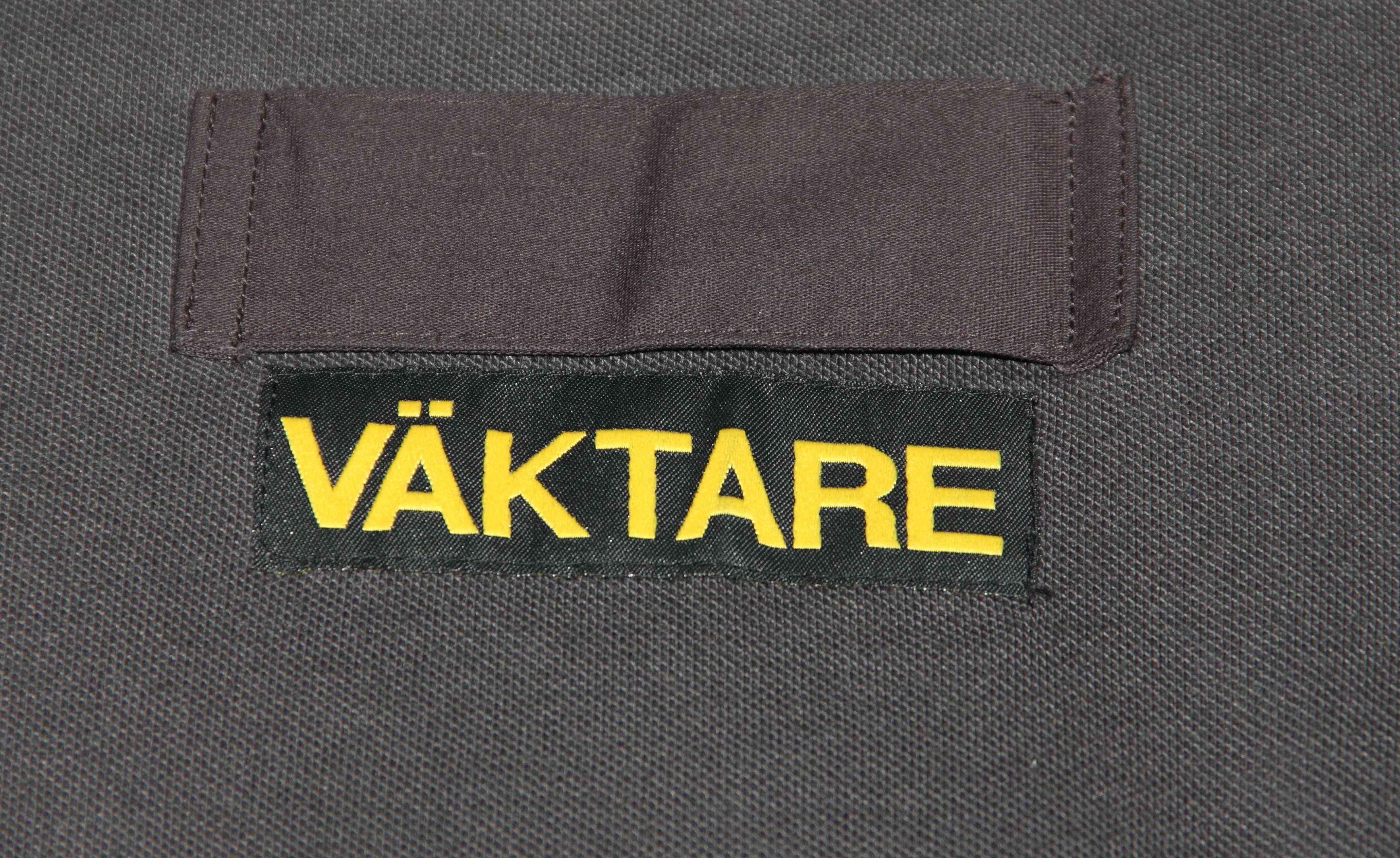 Swedish security guard emblem.